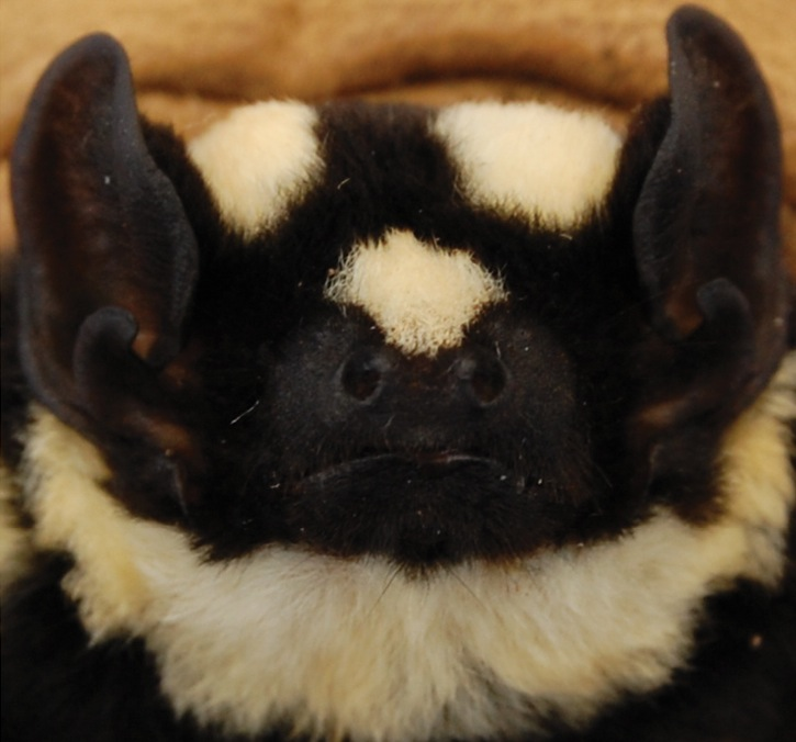 Niumbaha superba nostril shape and orientation.